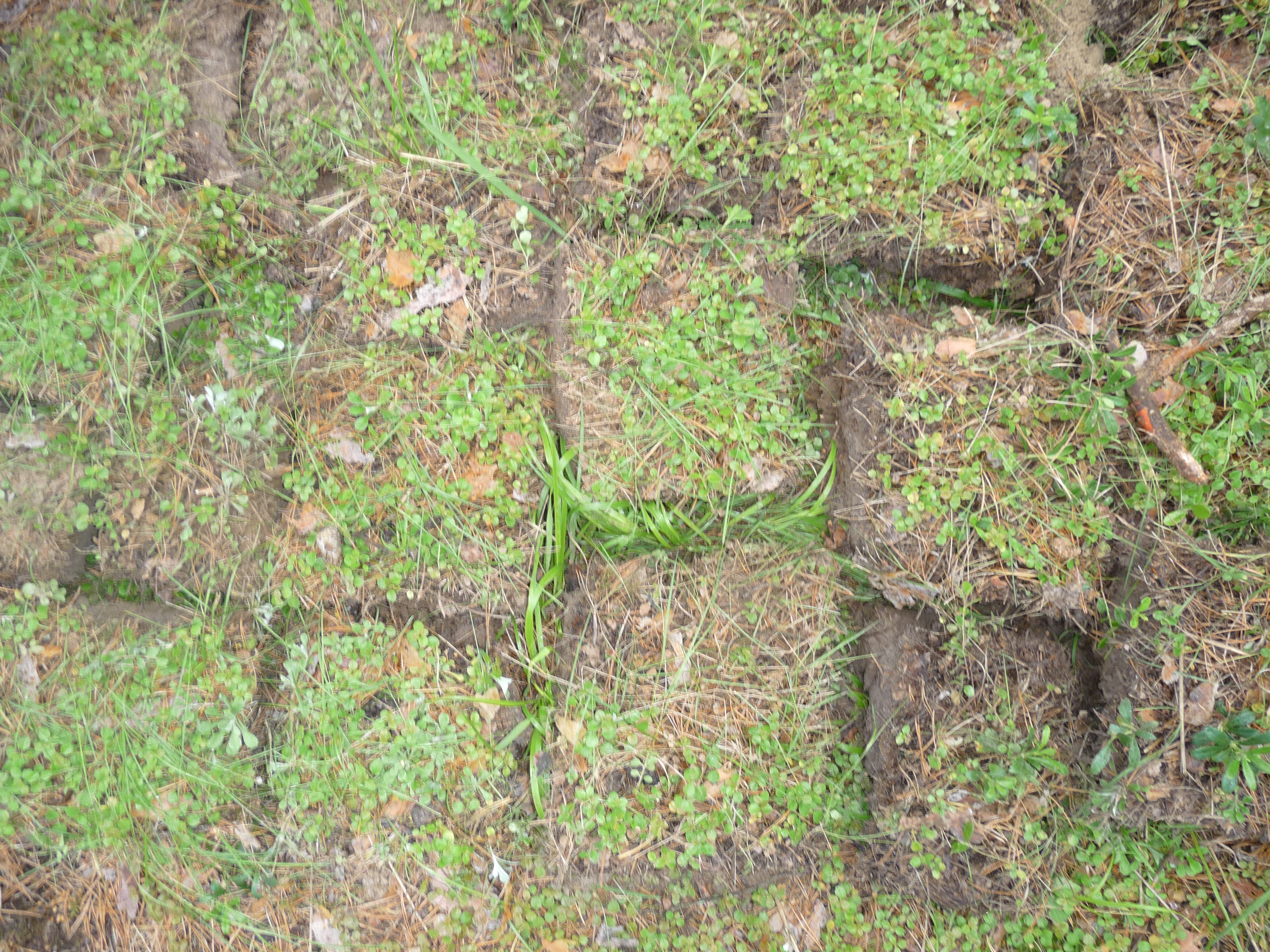 Turf